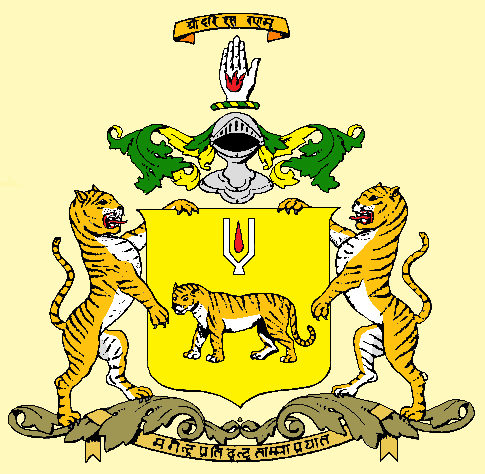 Rewa State Coat of Arms This work is in the public domain in India because its term of copyright has expired. The Indian Copyright Act applies in India, to works first published in India. According to The Indian Copyright Act, 1957 (Chapter V Section 25), Anonymous works, photographs, cinematographic works, sound recordings, government works, and works of corporate authorship or of international organizations enter the public domain 60 years after the date on which they were first published, counted from the beginning of the following calendar year (ie. as of 2016, works published prior to 1 January 1956 are considered public domain). Posthumous works (other than those above) enter the public domain after 60 years from publication date. Any other kind of work enters the public domain 60 years after the author's death. Text of laws, judicial opinions, and other government reports are free from copyright. Photographs created before 1958 are in the public domain 50 years after creation, as per the Copyright Act 1911. This file may not be in the public domain outside India. The creator and year of publication are essential information and must be provided. See Wikipedia:Public domain and Wikipedia:Copyrights for more details. This image shows a flag, a coat of arms, a seal or some other official insignia. The use of such symbols is restricted in many countries. These restrictions are independent of the copyright status.